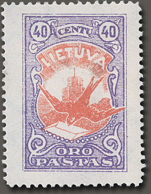 Lithuanian Air Post stamp Mi#244 (ERROR! pašPas) Issue date: May 22, 1926